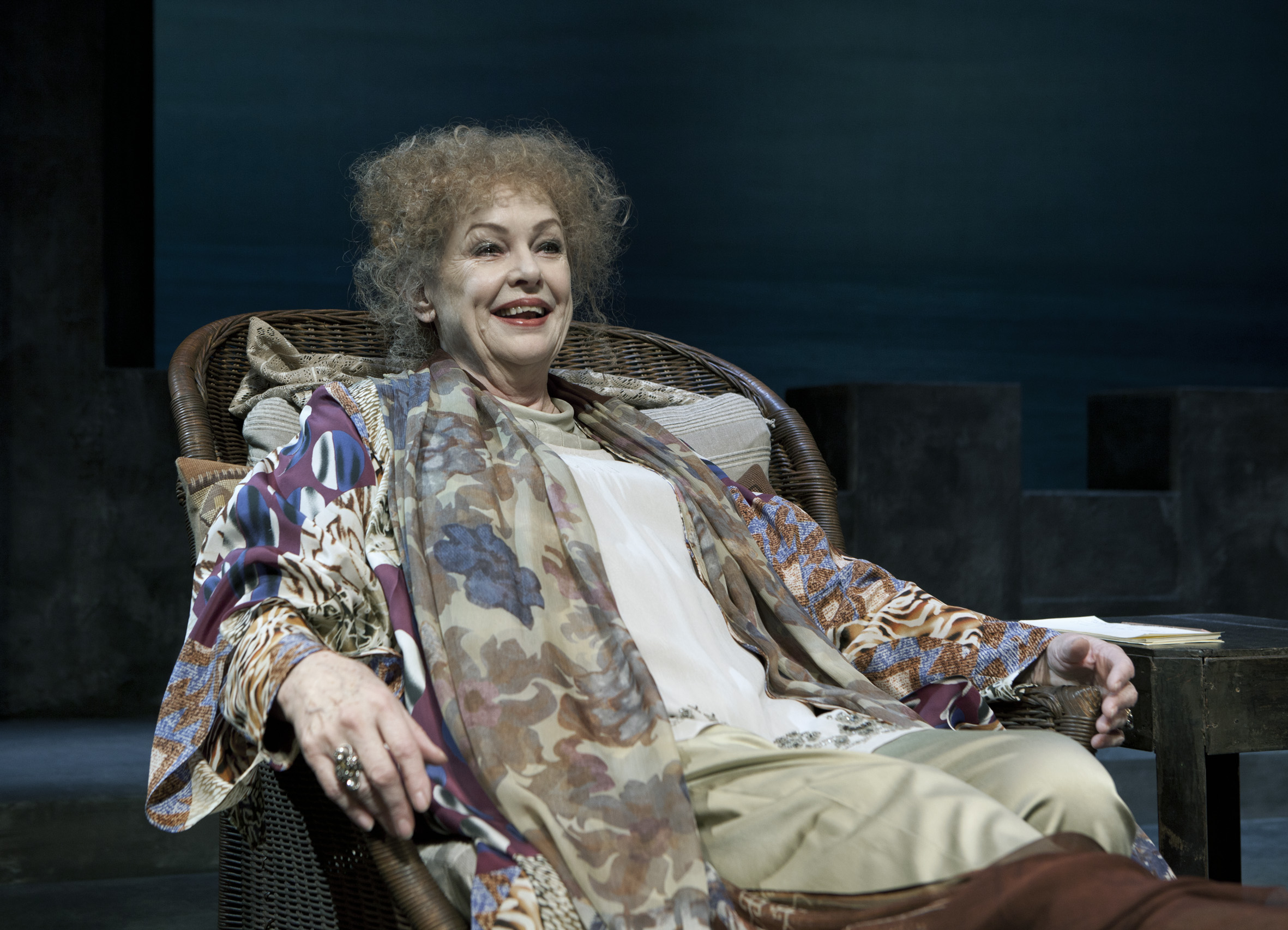 Ghita Nørby as Sarah Bernhardt in the Copenhagen theater Folketeatret's production of the play "Sarah" (Original title: "Memoir") by John Murrell.